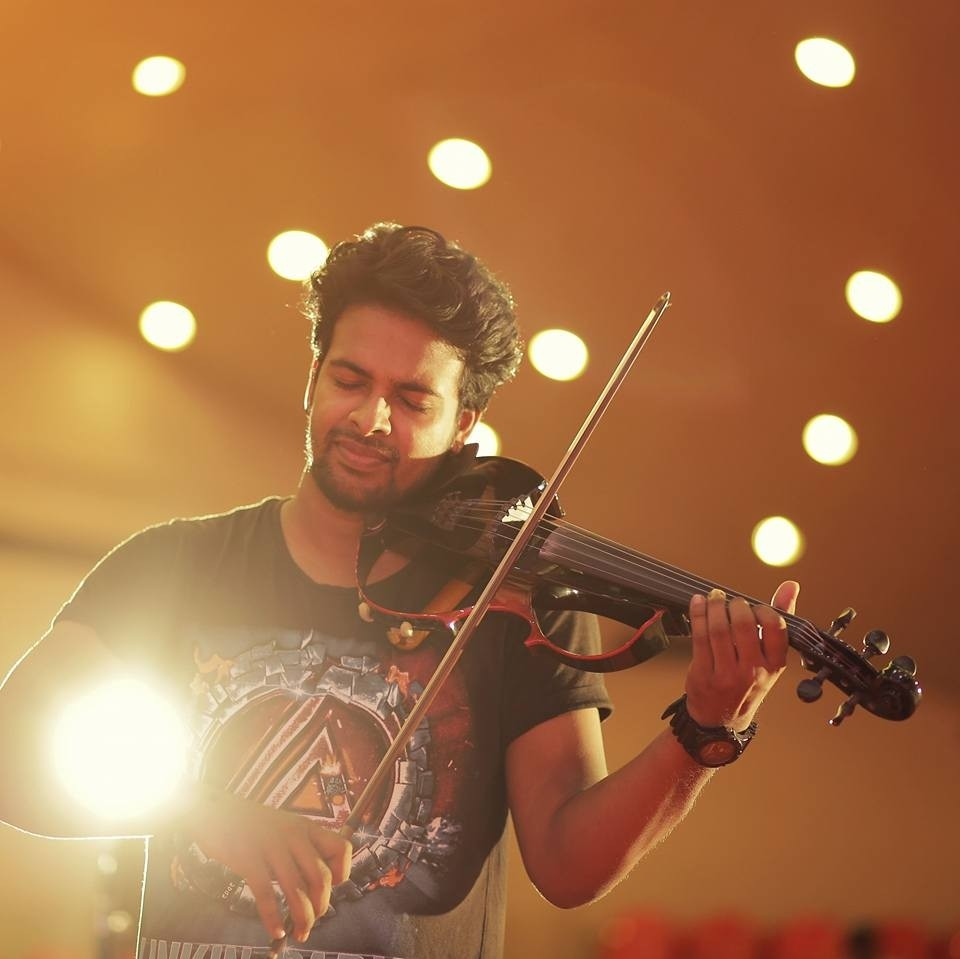 Violinist Binesh Babu